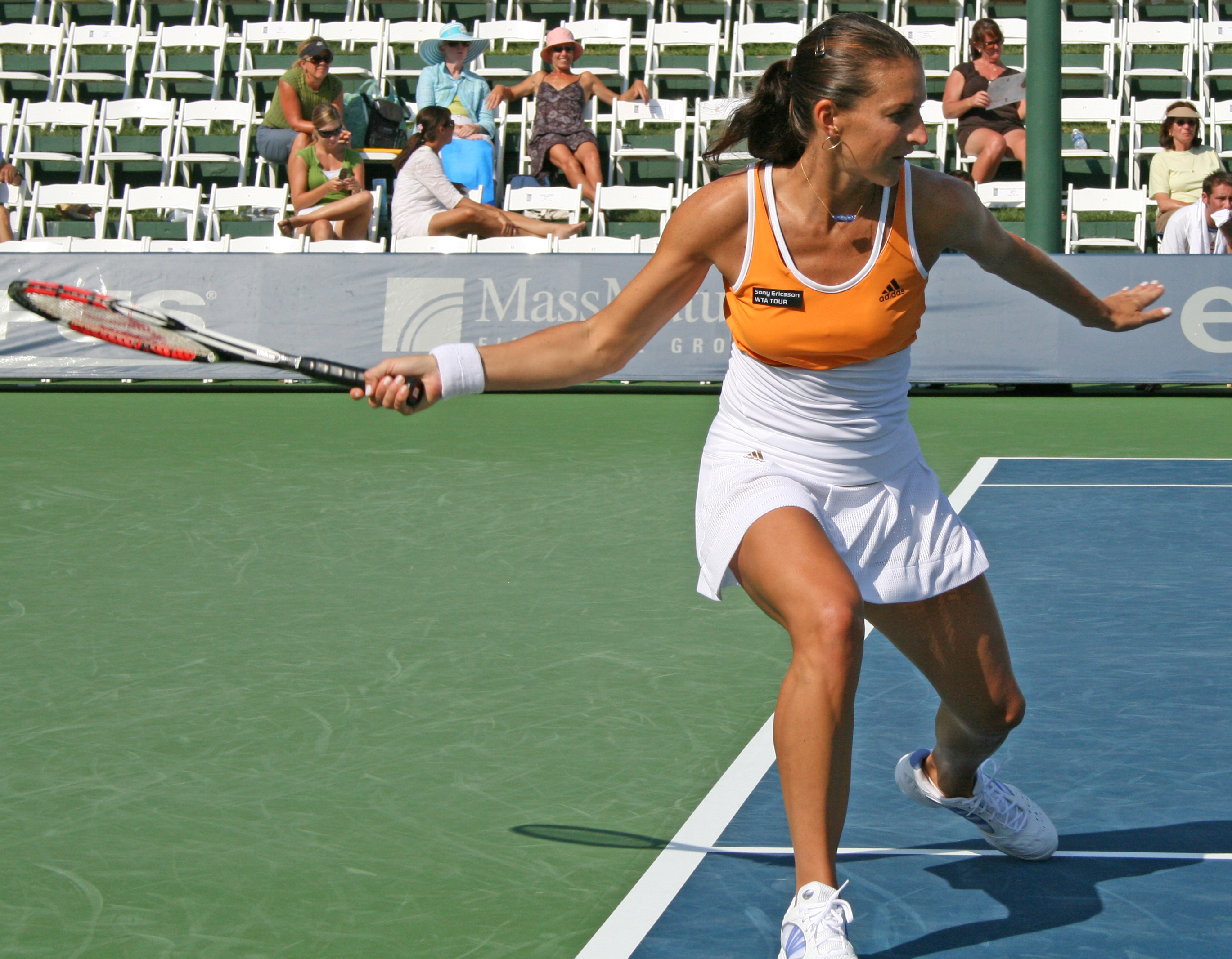 Corina Morariu at the 2007 Acura Classic